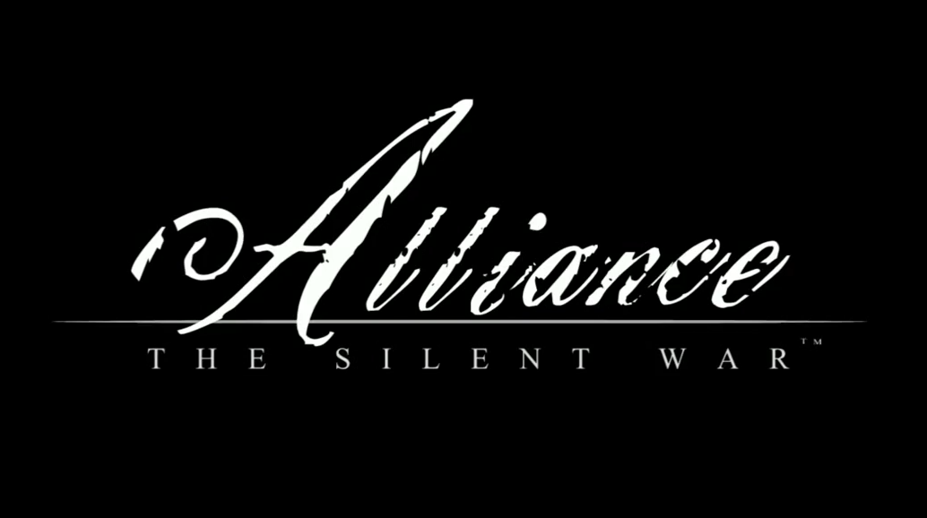 The logo for the video game Alliance: The Silent War. Logo consists of text and a horizontal rule.